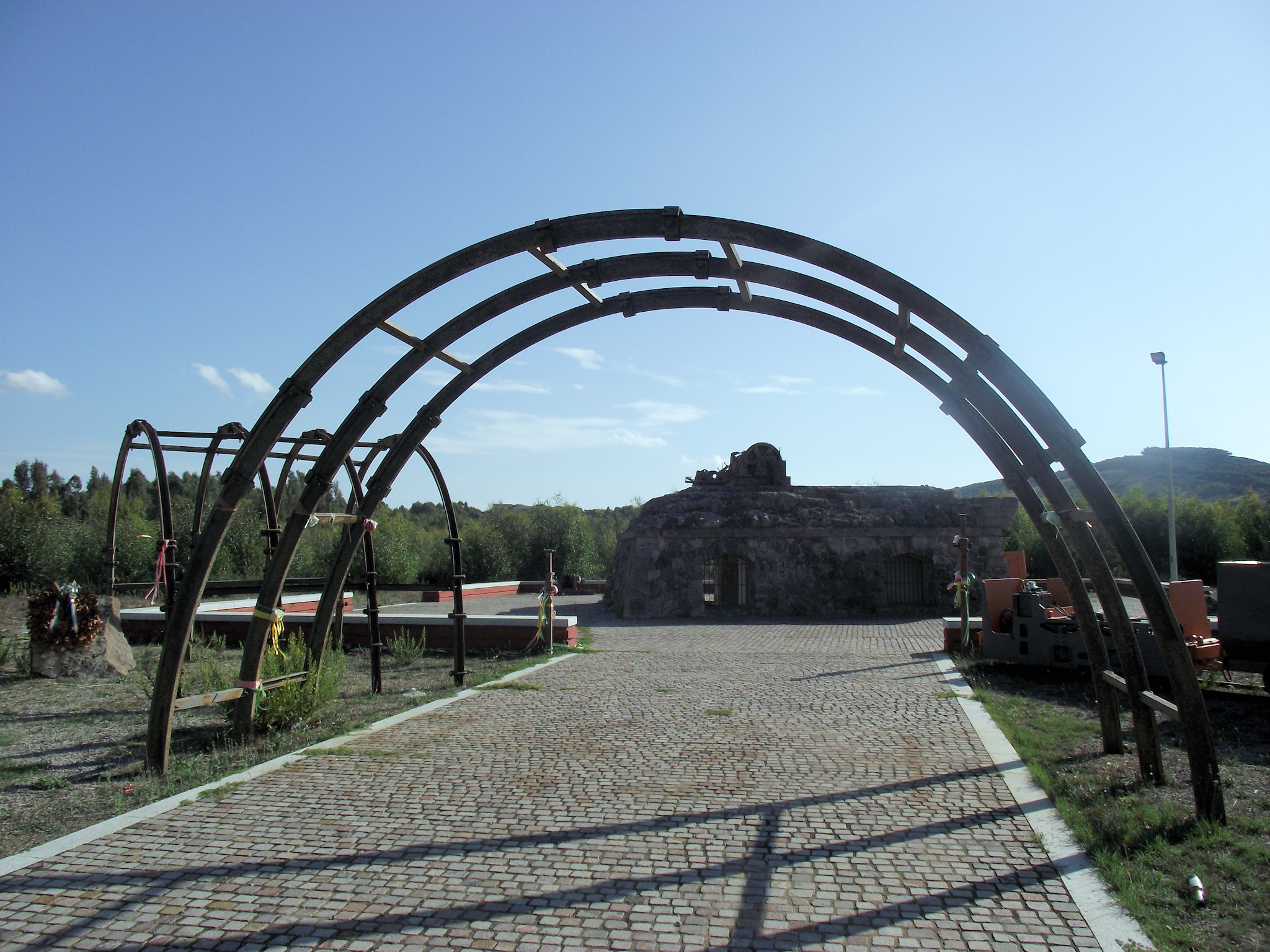 Remains of the structures of Pozzo Castoldi (Castoldi pit), coal pit active in the first half of the 20th century in Bacu Abis, in Carbonia municipality, Sardinia, Italy